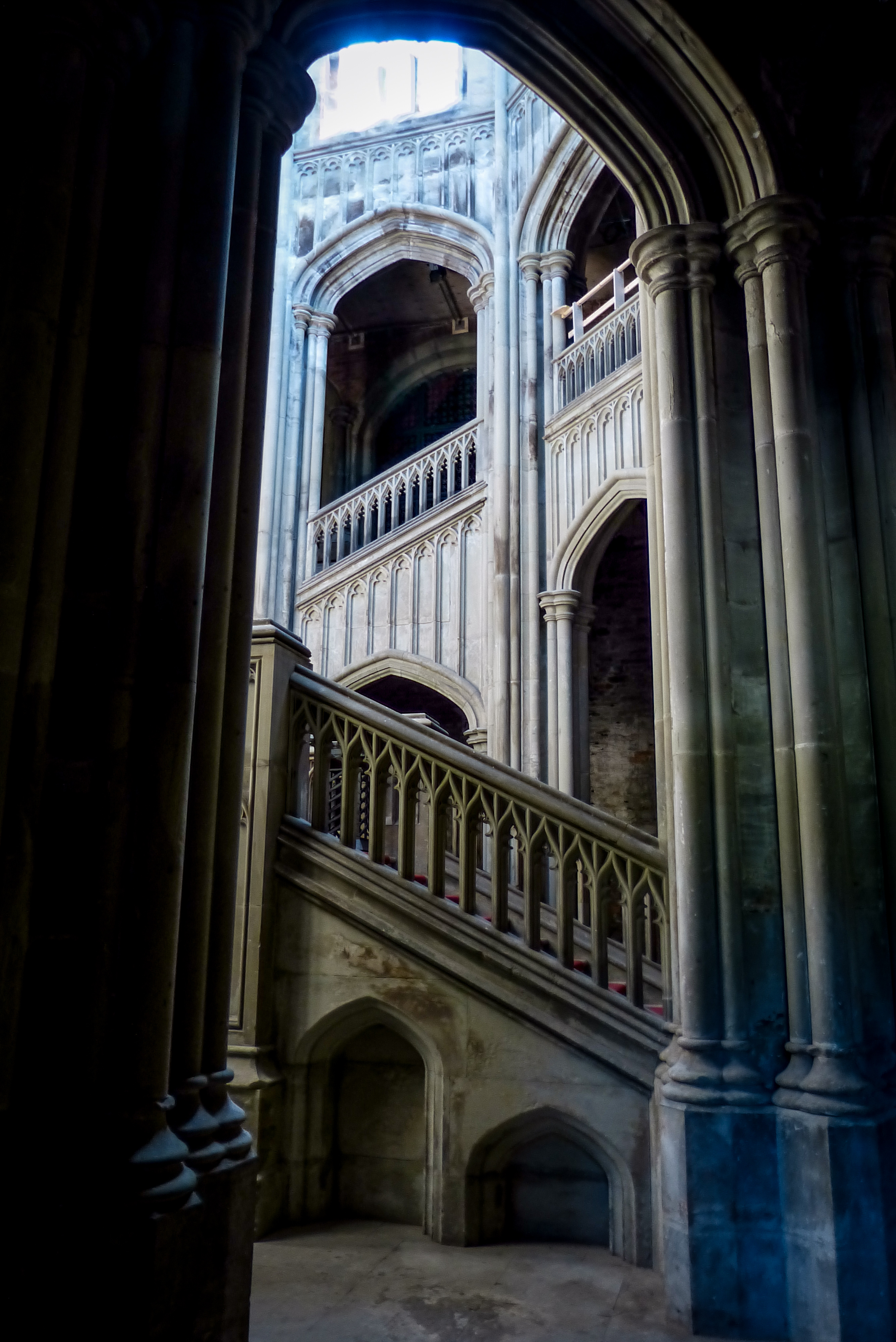 Margam Castle